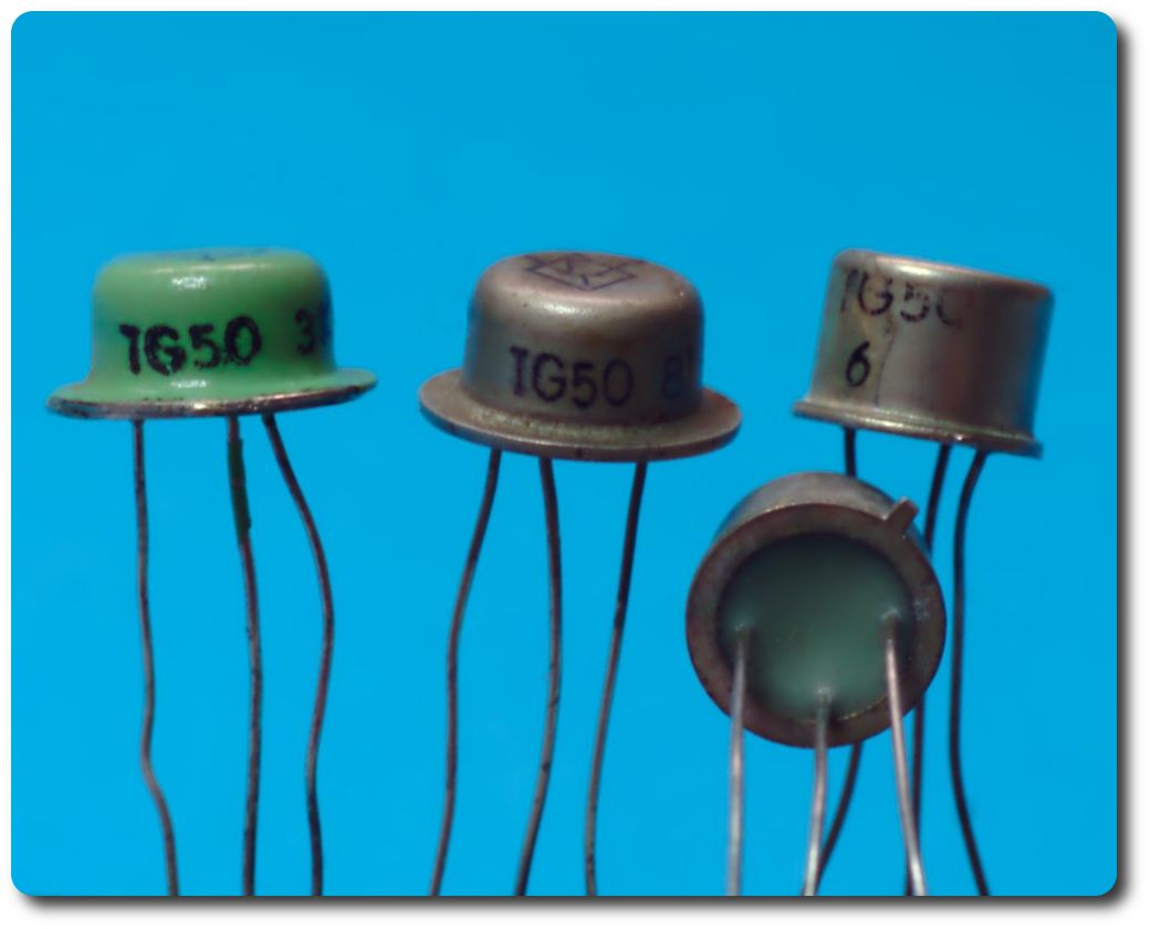 Polish germanium transistors TG50